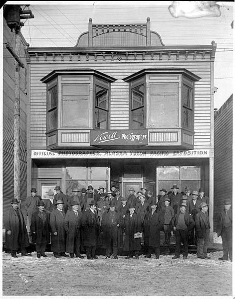 Frank Nowell's photography studio in Nome, Alaska ca. 1909, with sign stating "Official Photographer, Alaska Yukon Pacific Exposition". Photographer: Nowell, Frank H., 1864-1950 Subjects (LCTGM): Photographic studios--Alaska--Nome Group portraits Digital Collection: Alaska-Yukon-Pacific Exposition Collection Item Number: NOW246 Persistent URL: University of Washington Libraries. Digital Collections [#//content.lib.washington.edu%20